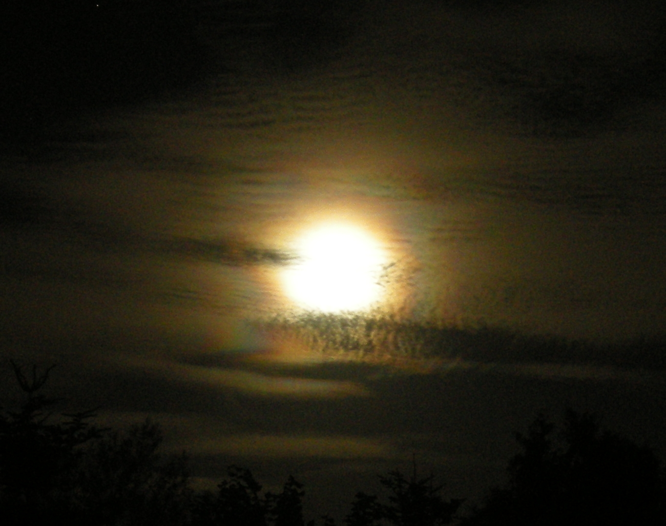 corona around the moon